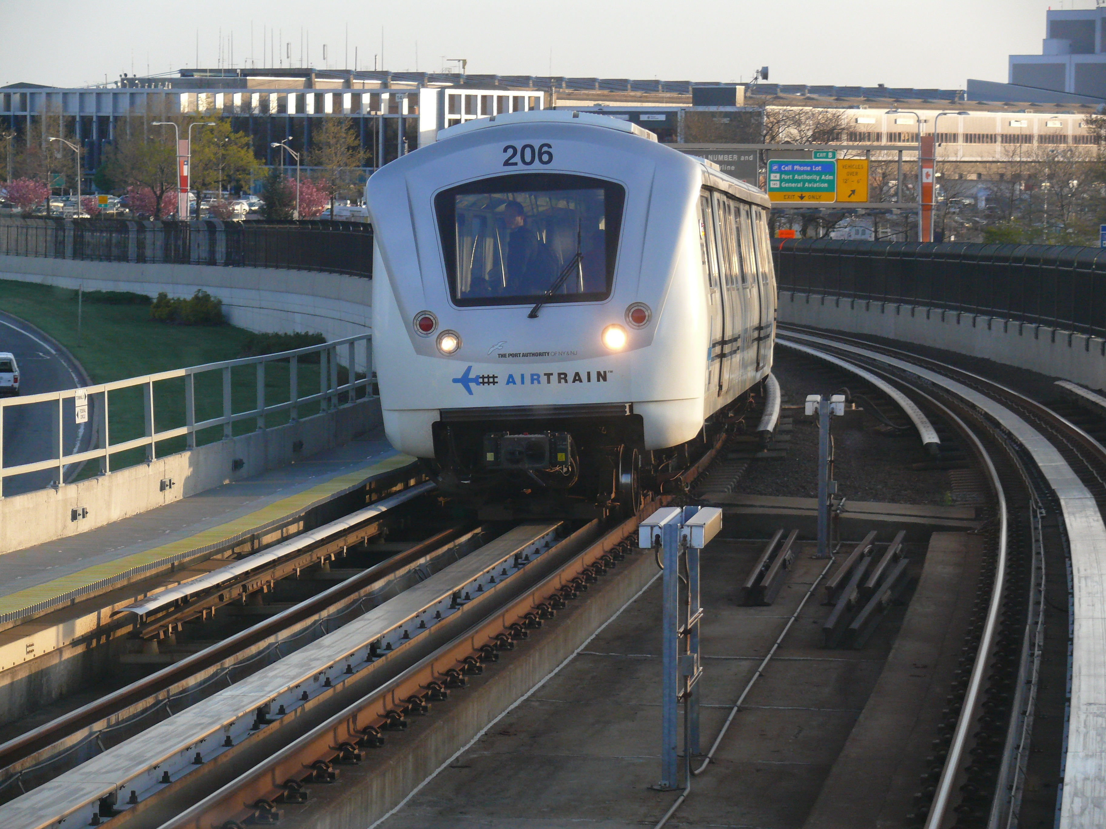 The AirTrain JFK a people mover at John F. Kennedy International Airport.